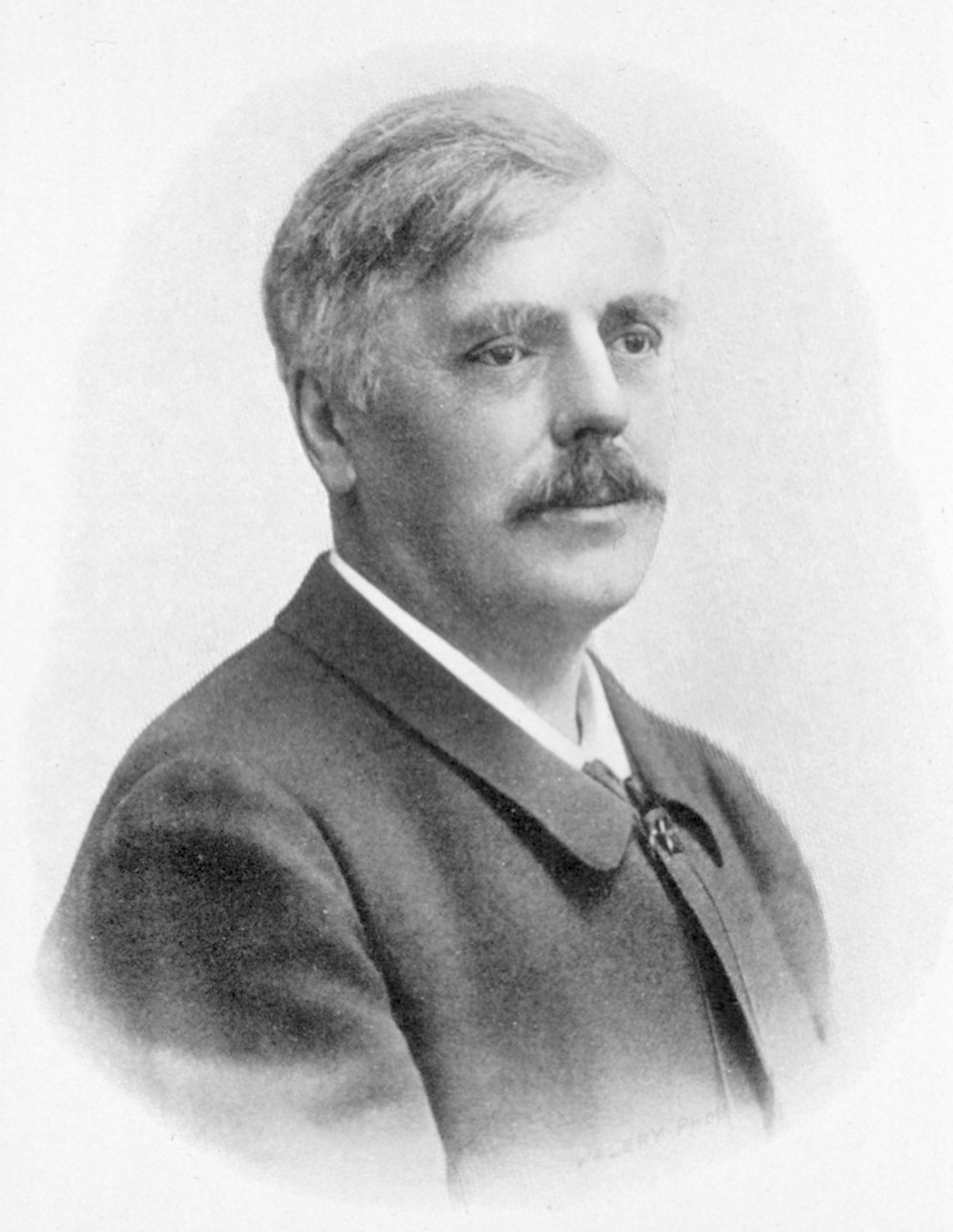 Portrait of Édouard_Brissaud (1852-1909).